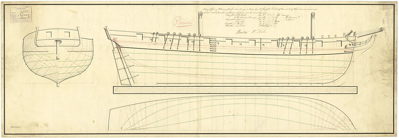 ROVER 1808 lines